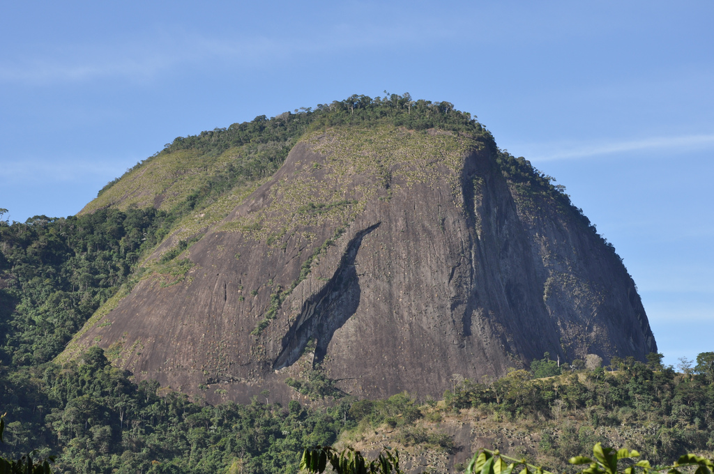 Ema Mountain, in Cachoeiro de Itapemirim, Espírito Santo, Brazil.